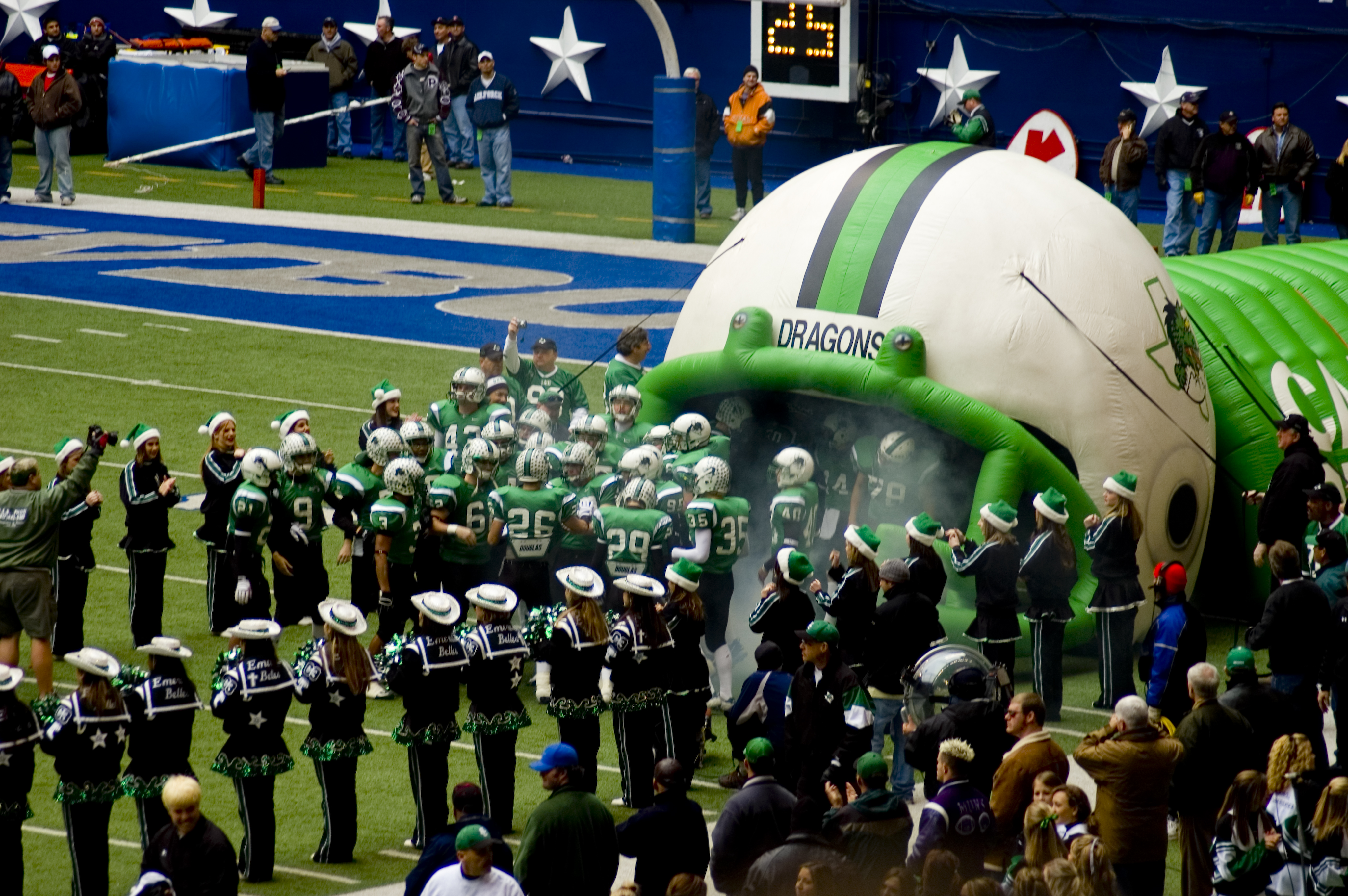 The Katy Tigers and the Southlake Carroll Dragons played Saturday, December 17, 2005 for the 2005 Texas 5-A Division 2 State Championship. Southlake won 34-20 at Texas Stadium, home of the NFL's Dallas Cowboys. It was the sixth state football title for Carroll (Katy has four) and its third since 2002. They also became the National High School Champions in the National Prep Football Poll and the Student Sports Fab 50. They came in 2nd in the USA Today Super 25 Poll behind Lakeland, Florida.